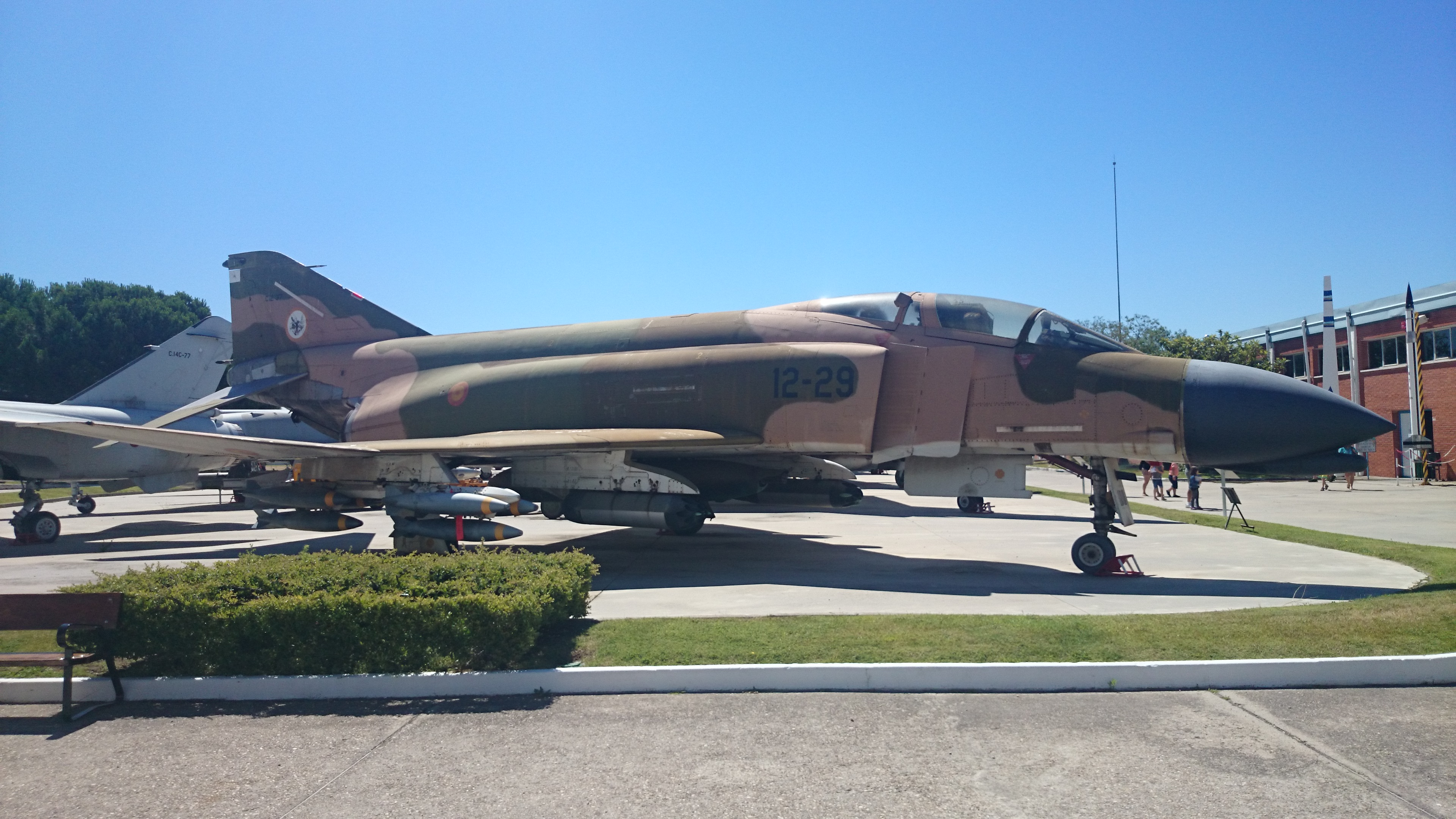 Ex Spanish Airforce F-4D phantom in Museo del Aire